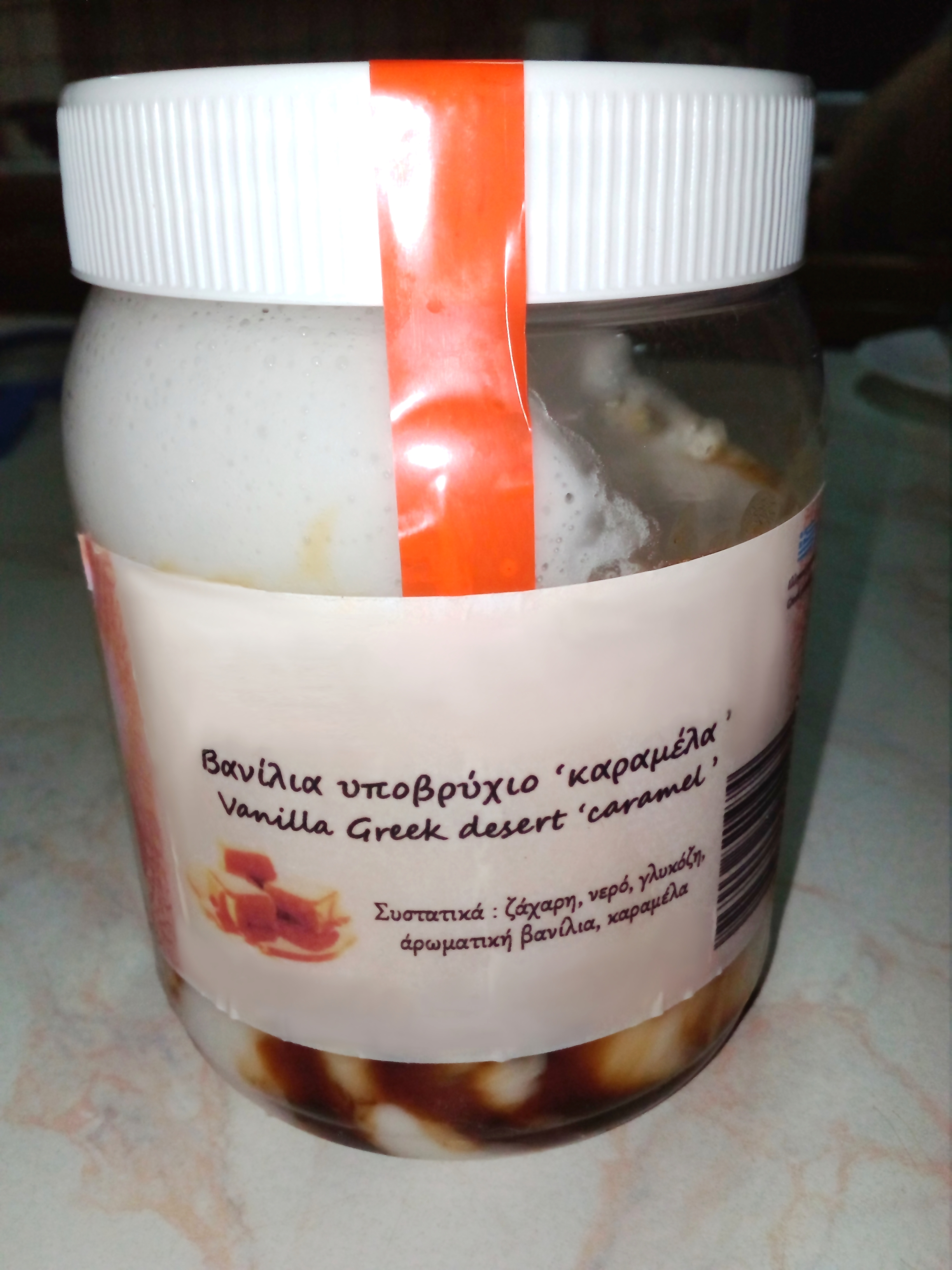 Spoon sweet vanilla with caramel (ypovrixio)